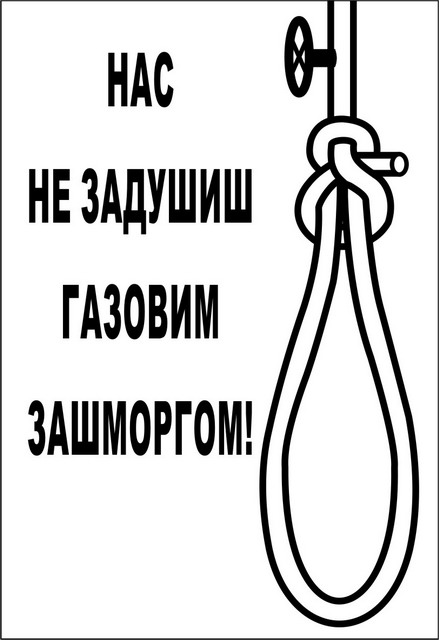 Poster by activists of "Remember about gas — do not buy Russian goods!" campaign